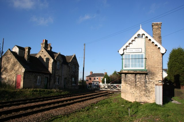 Stow Park level crossing, signal box and former station on Tillbridge Lane, Marton, Lincolnshire